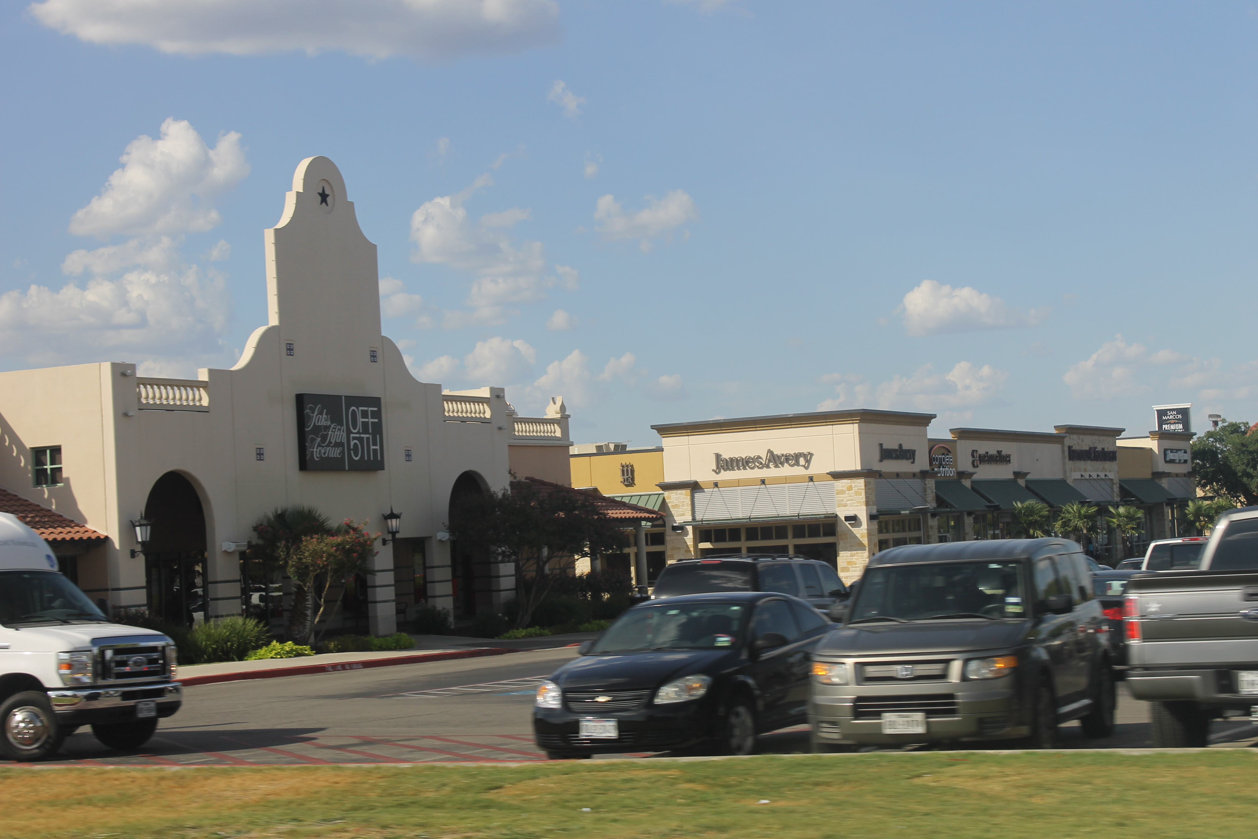 I took photo of Saks Fifth Avenue store in shape of the Alamo at outlet malls in San Marcos, TX.